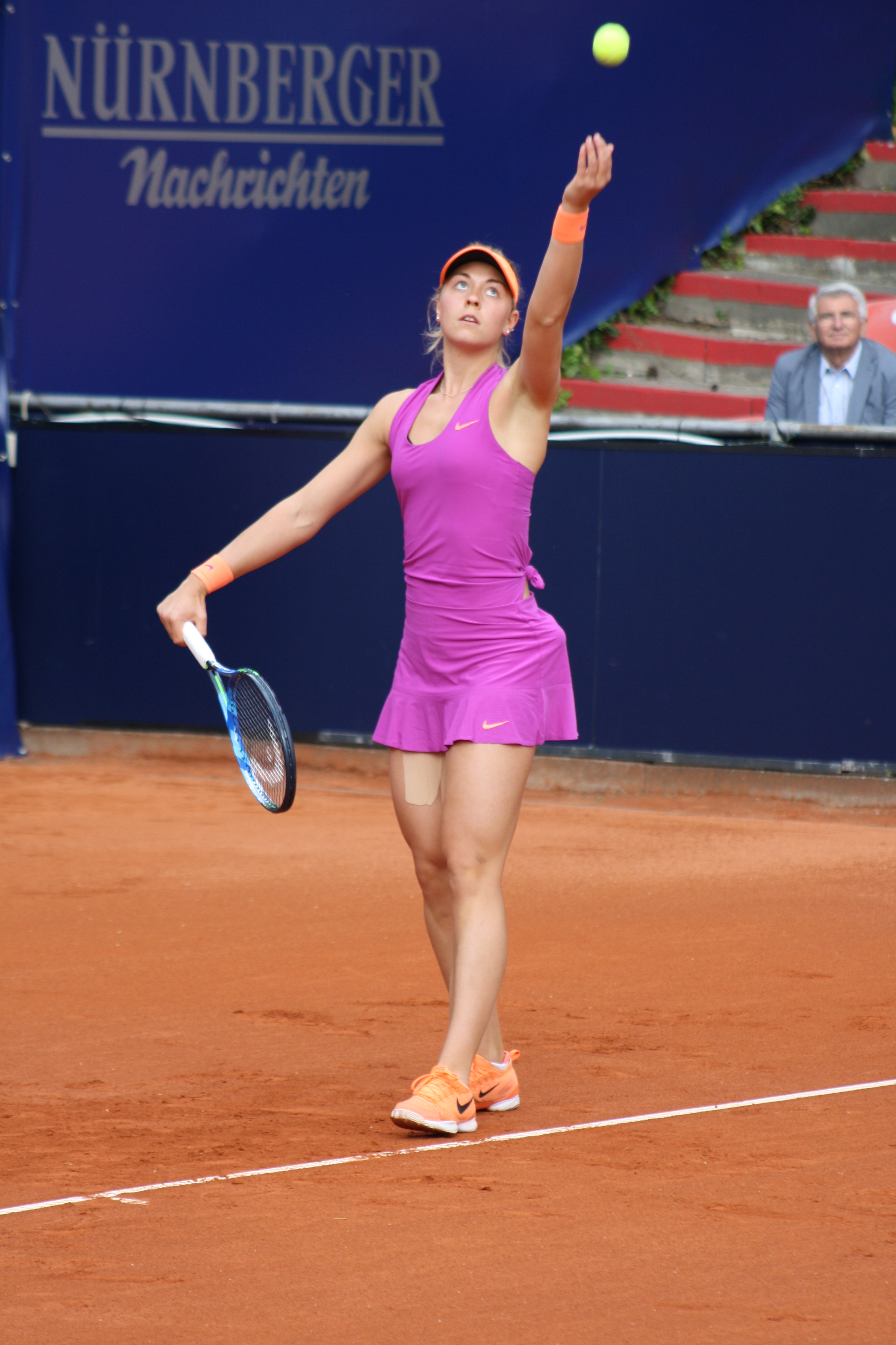 Carina Witthöft, May 2017